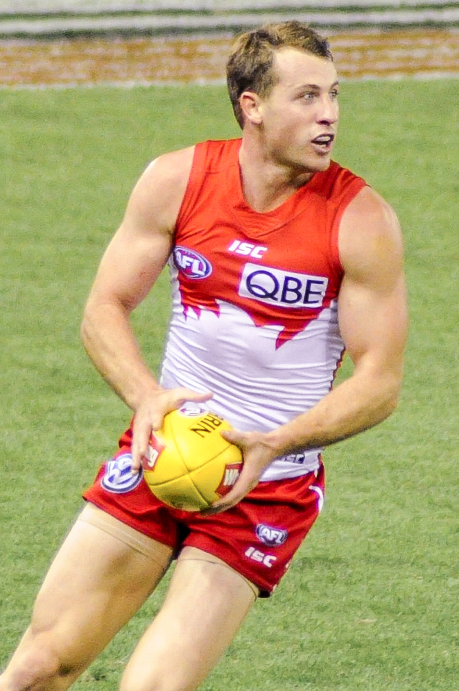 Harry Cunningham during the AFL round two match between the Western Bulldogs and Sydney on 31 March 2017 at the Etihad Stadium in Melbourne, Victoria.